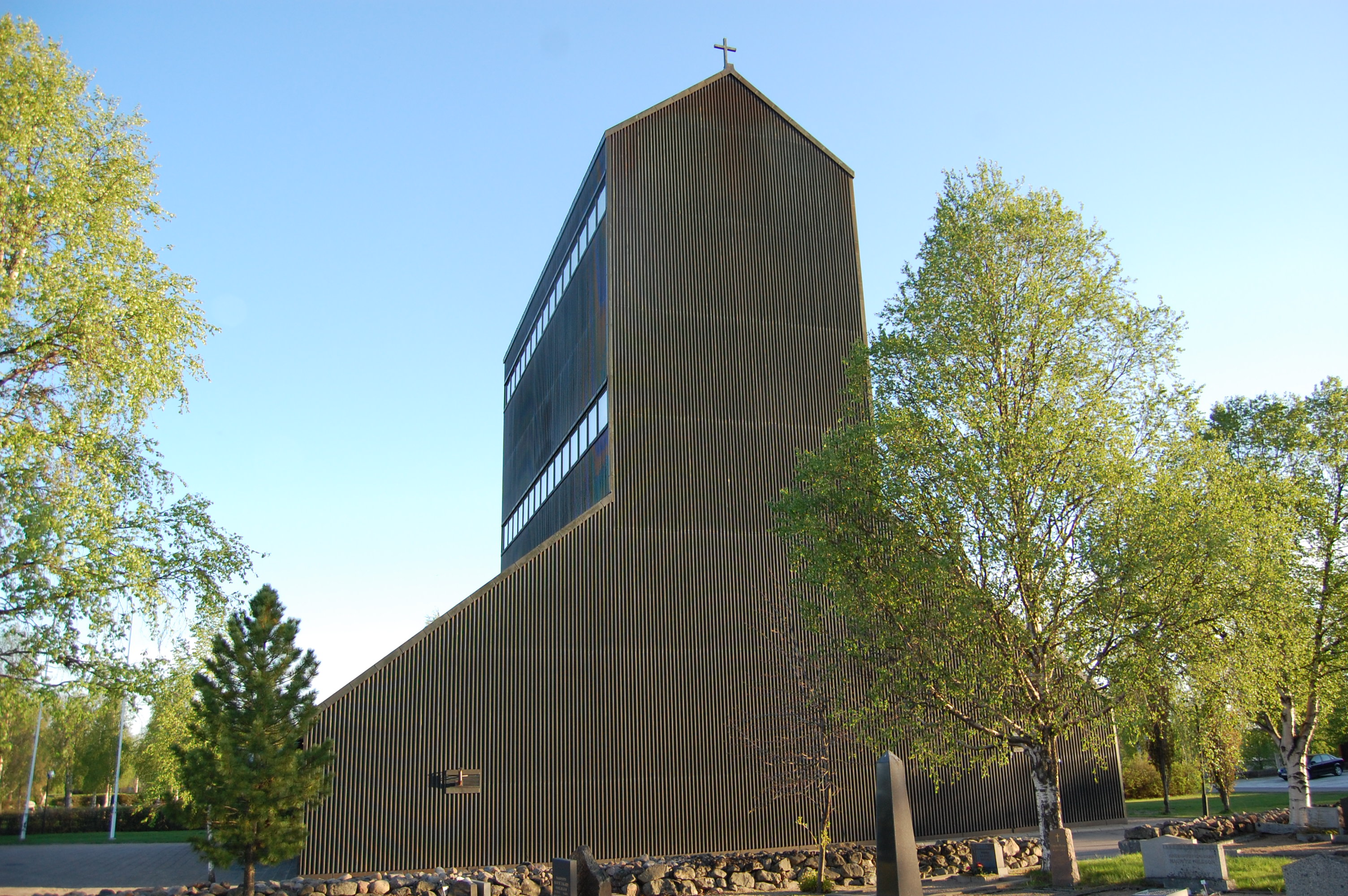 Picture of the church of Haparanda taken by Metallion on June 4, 2007.